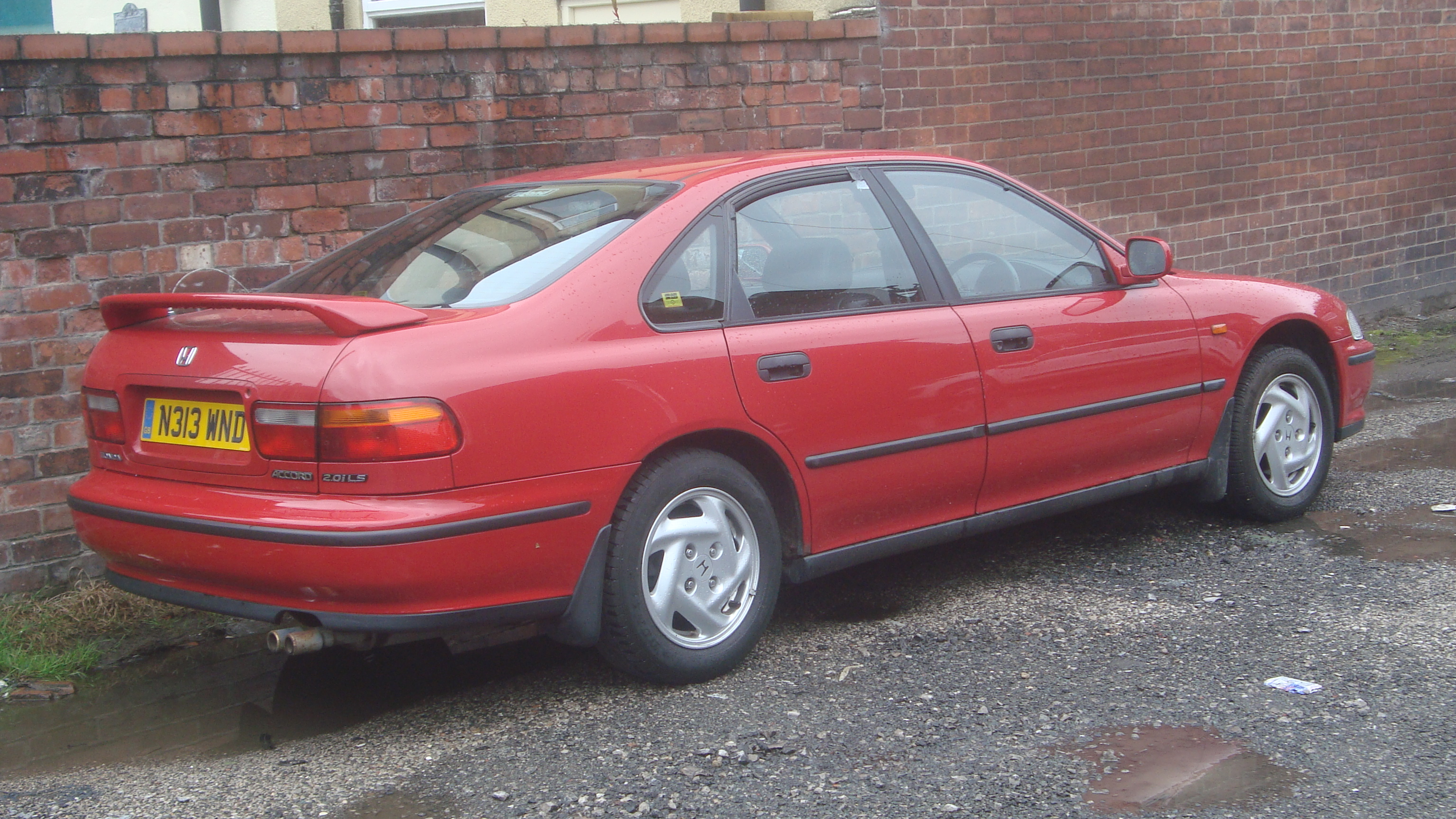 1995 Honda Accord 2.0 LS Auto